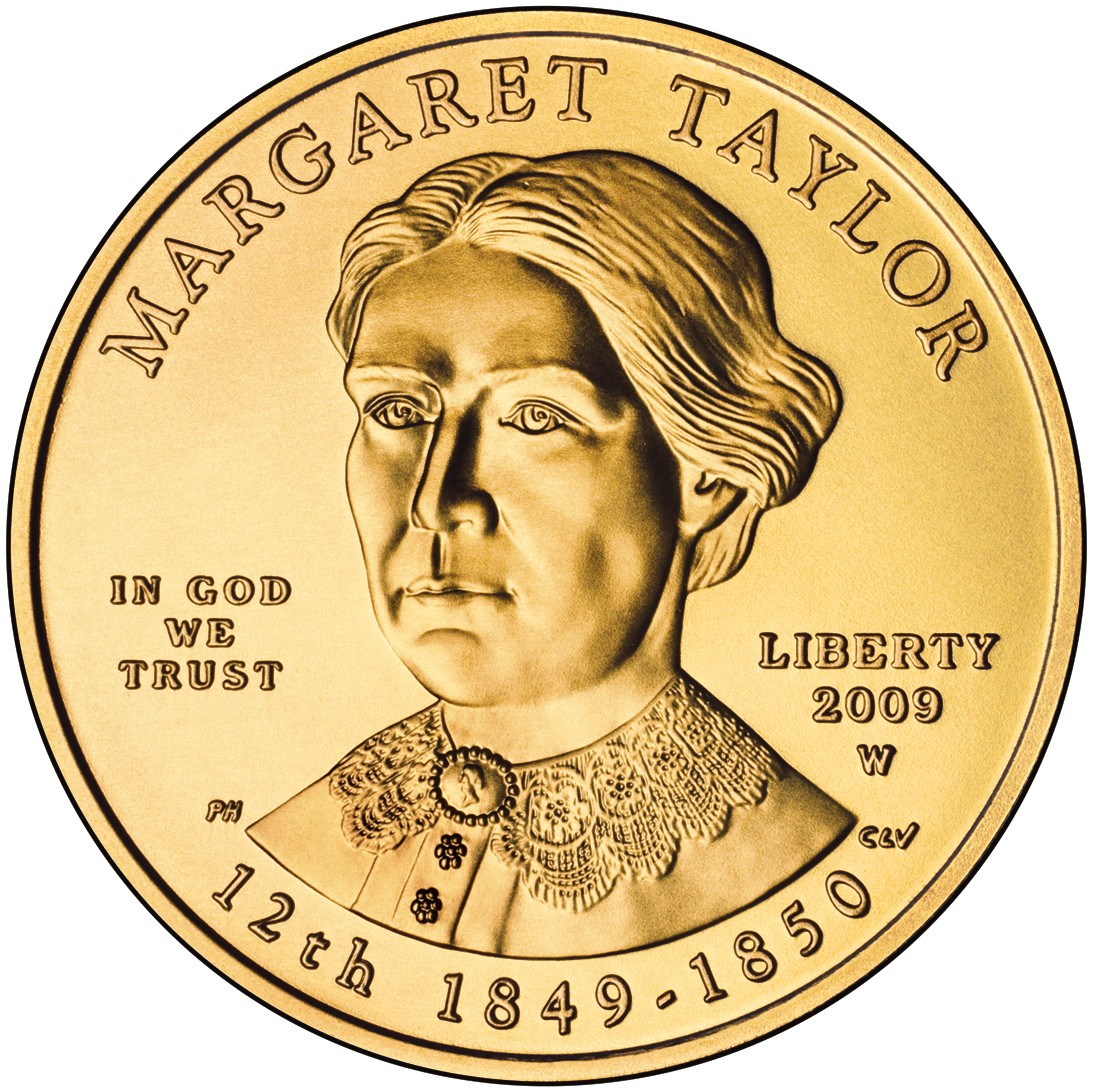 First Spouse Program gold coin for Margaret Taylor. Obverse.